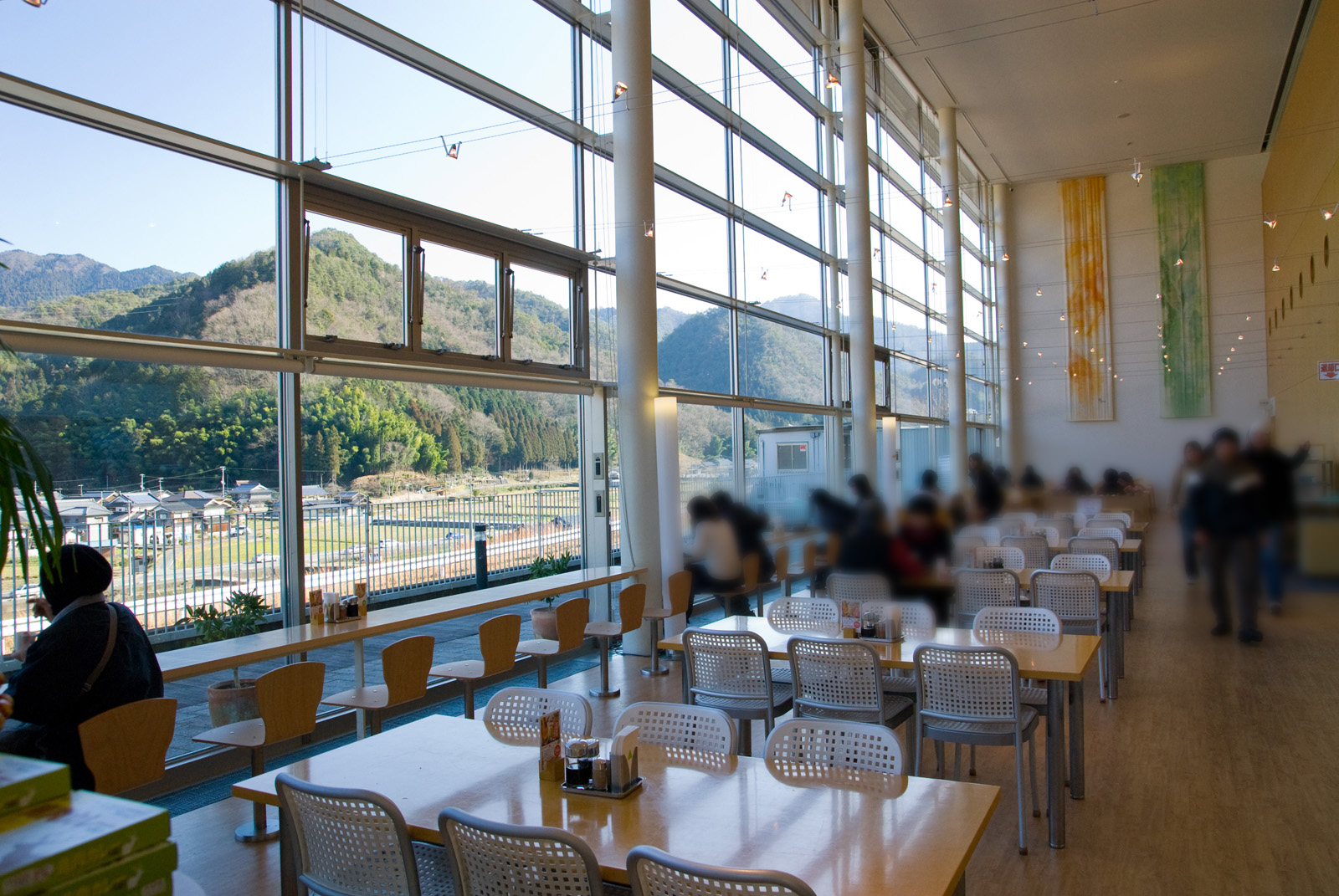 Road side station Fresh-Asago